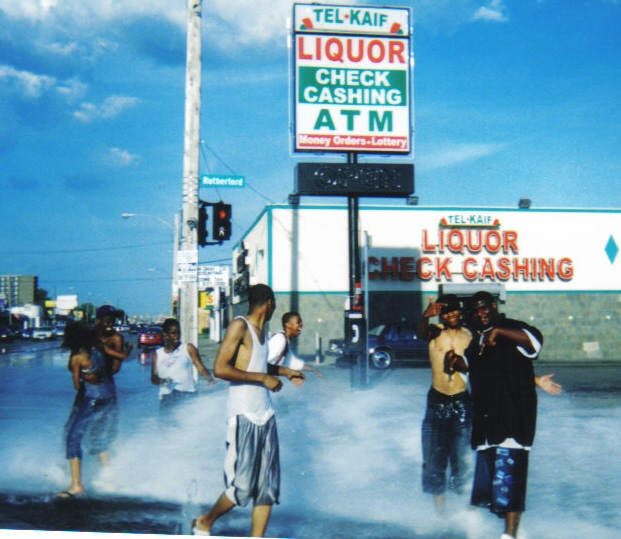 Children playing with the fire hydrant on 7 Mile Rd.